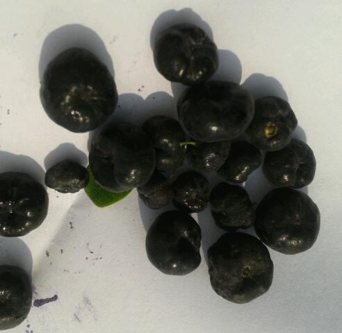 Botanical name : Phyllanthus reticulatus Common name : Black-berried featherfoil Native to: Indian subcontinent etc ., Tamil name : KARU NELLI ‘black Indian goose berry’ Fruiting and flowering season of plant is from July to March. Leaves of the plant, researches proven, contain tannic acid ; The leaves are used as diabetic medicine. It is also considered as antidiarrhoel ;Paste of leaves is applied to burns ;Fruits are famine food ;Decoction of leaves has antibacterial activity ; Dried bark is used as diuretic by physicians . In picture - Ripe fruits of Phyllanthus reticulatus ; They are edible !